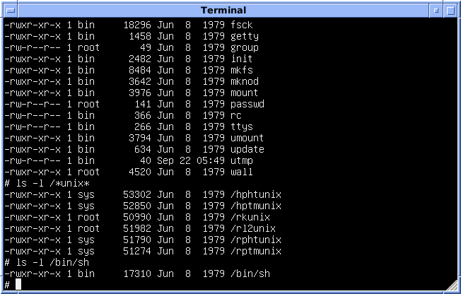 Version 7 Unix for the PDP-11, running in the SIMH PDP-11 simulator. Listing the files for Unix kernel variants, and the Bourne shell. Note the tiny sizes (50k kernels, 17k shell).